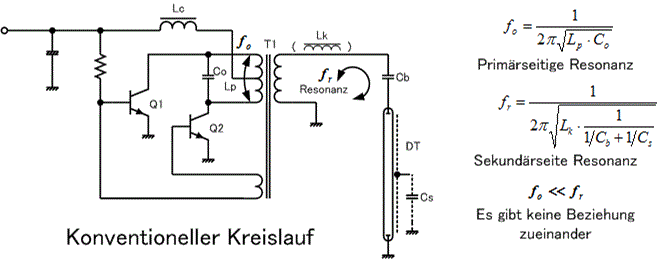 DE version